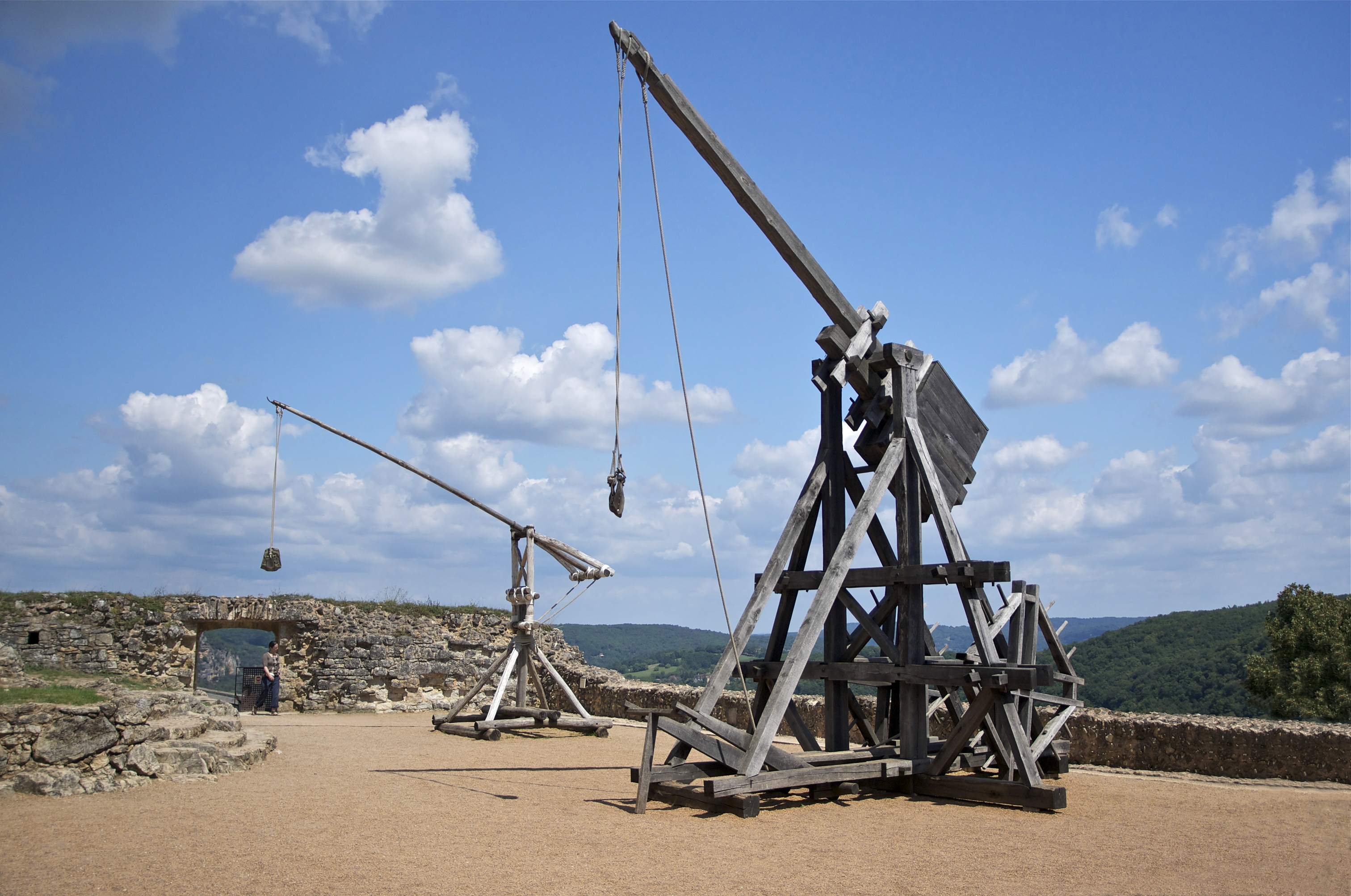 Two reconstructed trebuchets, Château de Castelnaud, Dordogne, France.